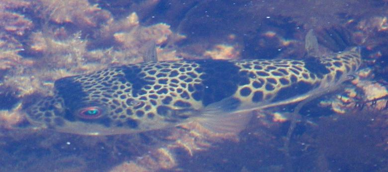 Tetractenos glaber (Smooth Toadfish) at Philip Island, Victoria